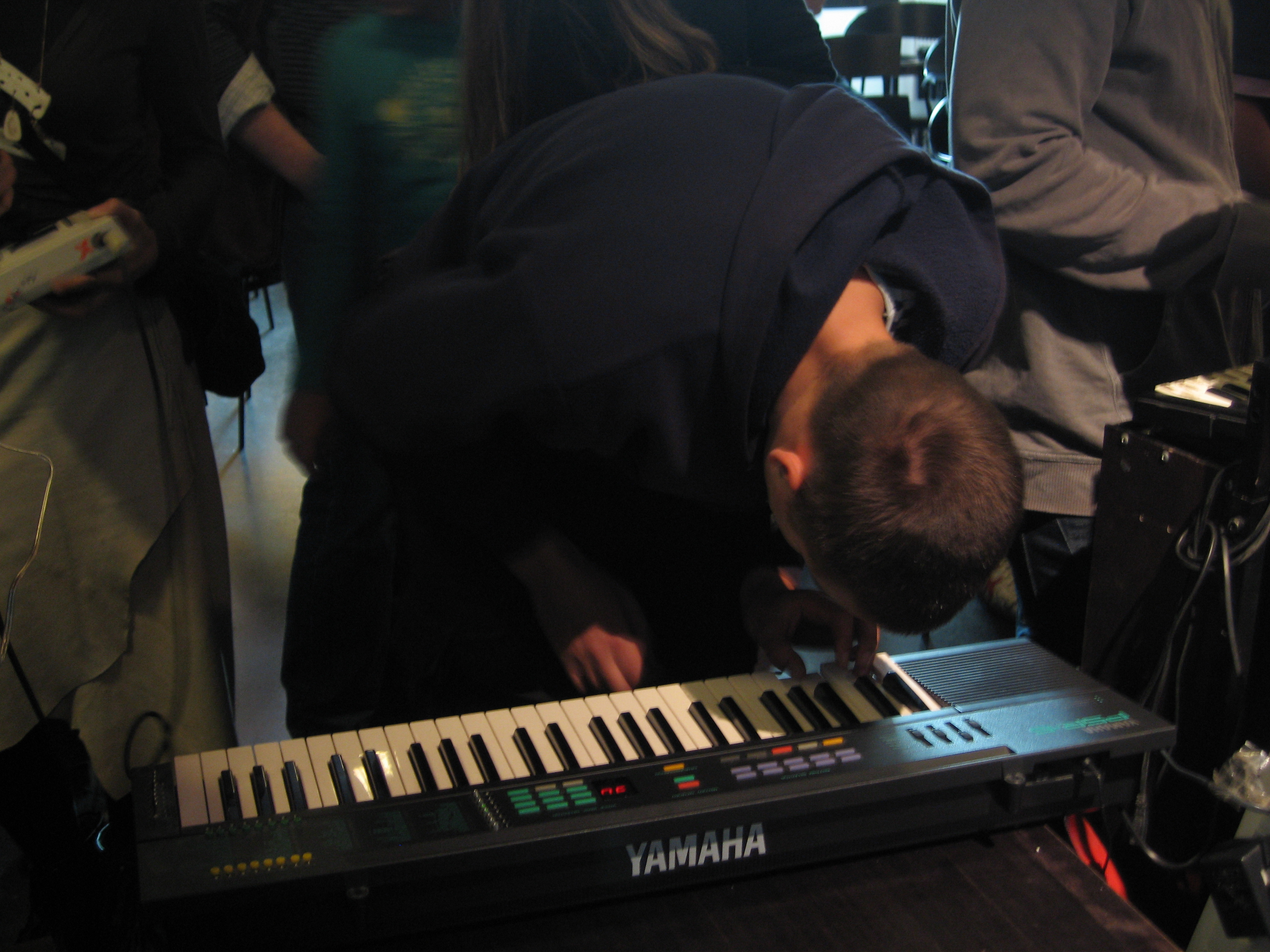 Yamaha PSR-6 circuit bended exhibited at Dorkbot Helsinki 2007